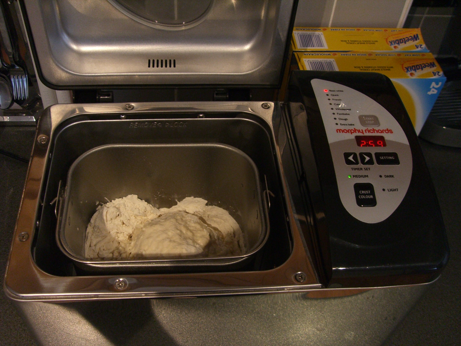 This is about one minute after pressing the start button.